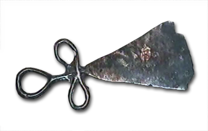 Ritual pendant-knife. Jewellery artifacts from Bronze Age found in Ukraine